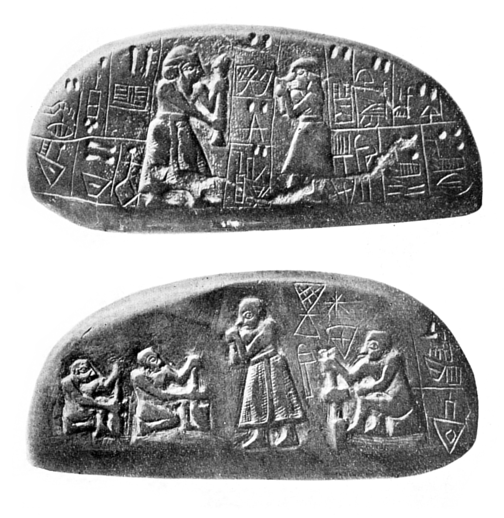 Blau Monument British Museum 86260